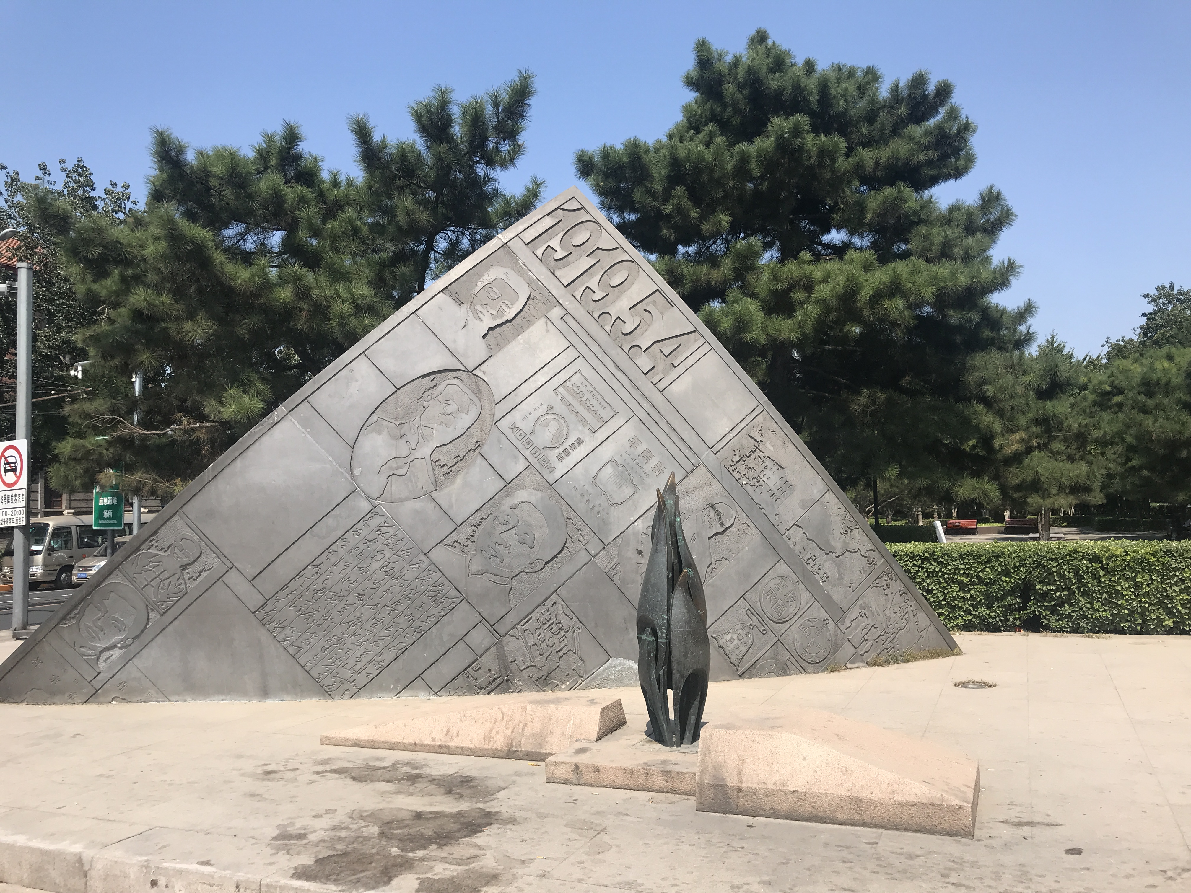 Memorial to the May 4th Movement in Beijing China